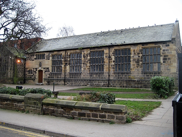 Elizabethan Gallery, Brook Street The " Free Grammar School of Queen Elizabeth at Wakefield " was established by Royal Charter in 1591. The school moved to its present home in Northgate in 1855. This grade II* listed building is to be incorporated into the new Trinity Walk development, one of Wakefields regeneration schemes.